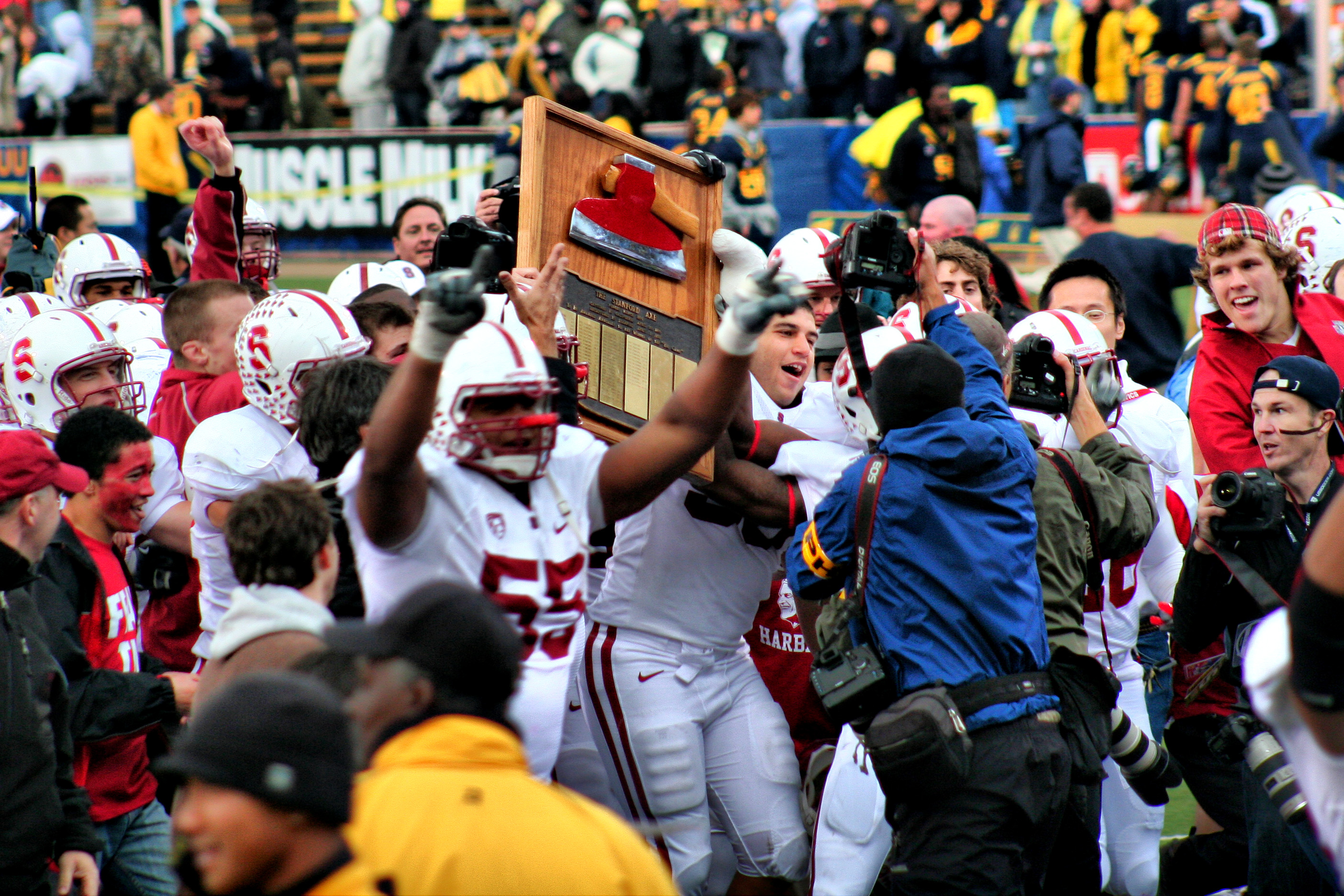 On November 20, 2010, in Berkeley, California, Stanford Cardinal football players lift the Stanford Axe, the trophy awarded to the winner of the annual Big Game rivalry football contest between Stanford and the University of California, Berkeley. In 2010, Stanford defeated California 48-14, tying the record set by California in 1976 for the most points scored by one team in one Big Game.